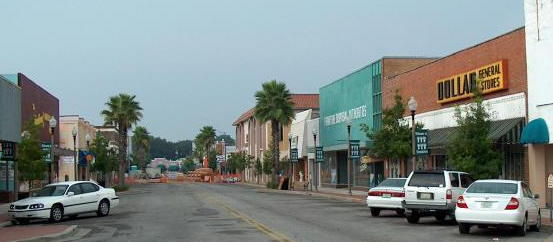 Street in Downtown Panama City